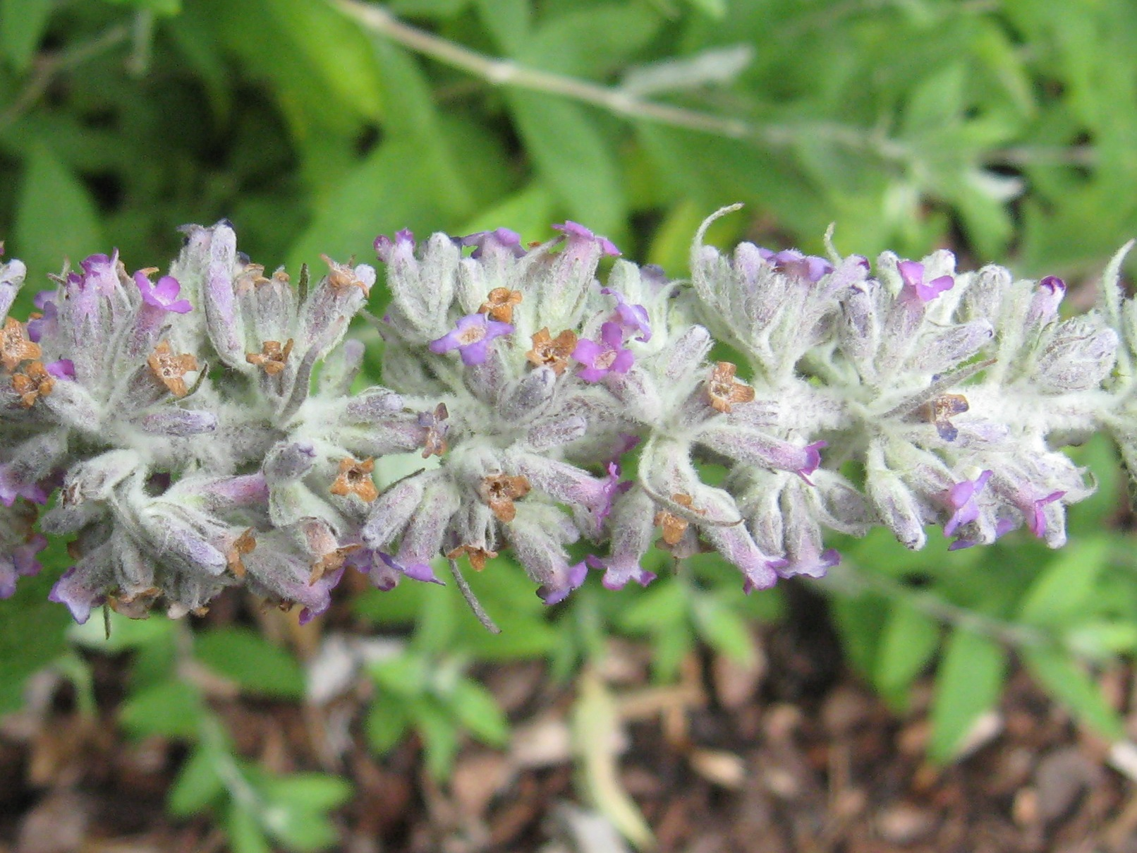 Photo of the inflorescence of Buddleja nivea var. yunnanensis, taken at longstock Park Nursery, Hampshire